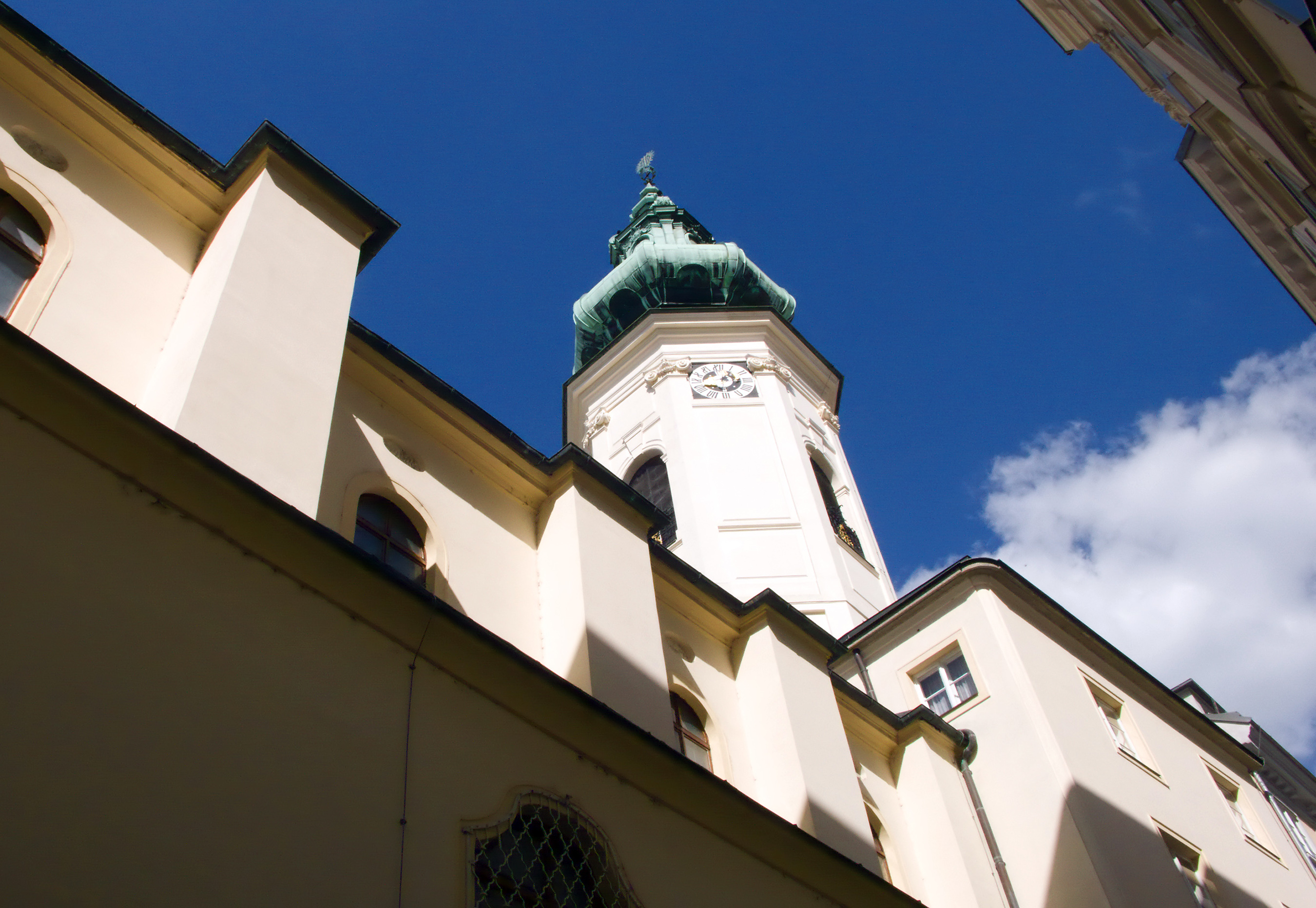 St. Anne's Church, Vienna, Austria (cropped)